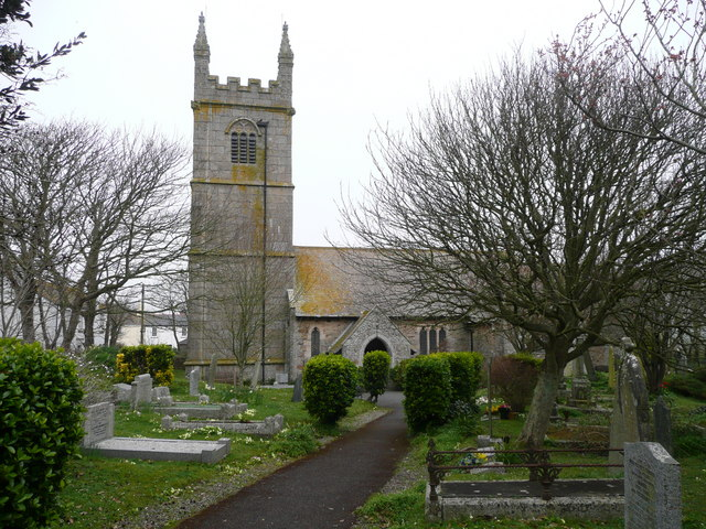 St. Gwithian's church, Gwithian The village was named after the obscure St. Gwithian, who was patron saint of good fortune on the sea.